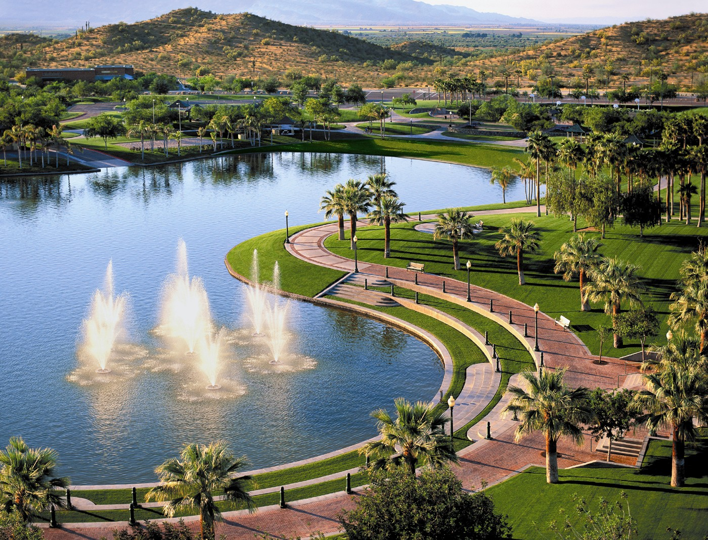 A View of North Lake